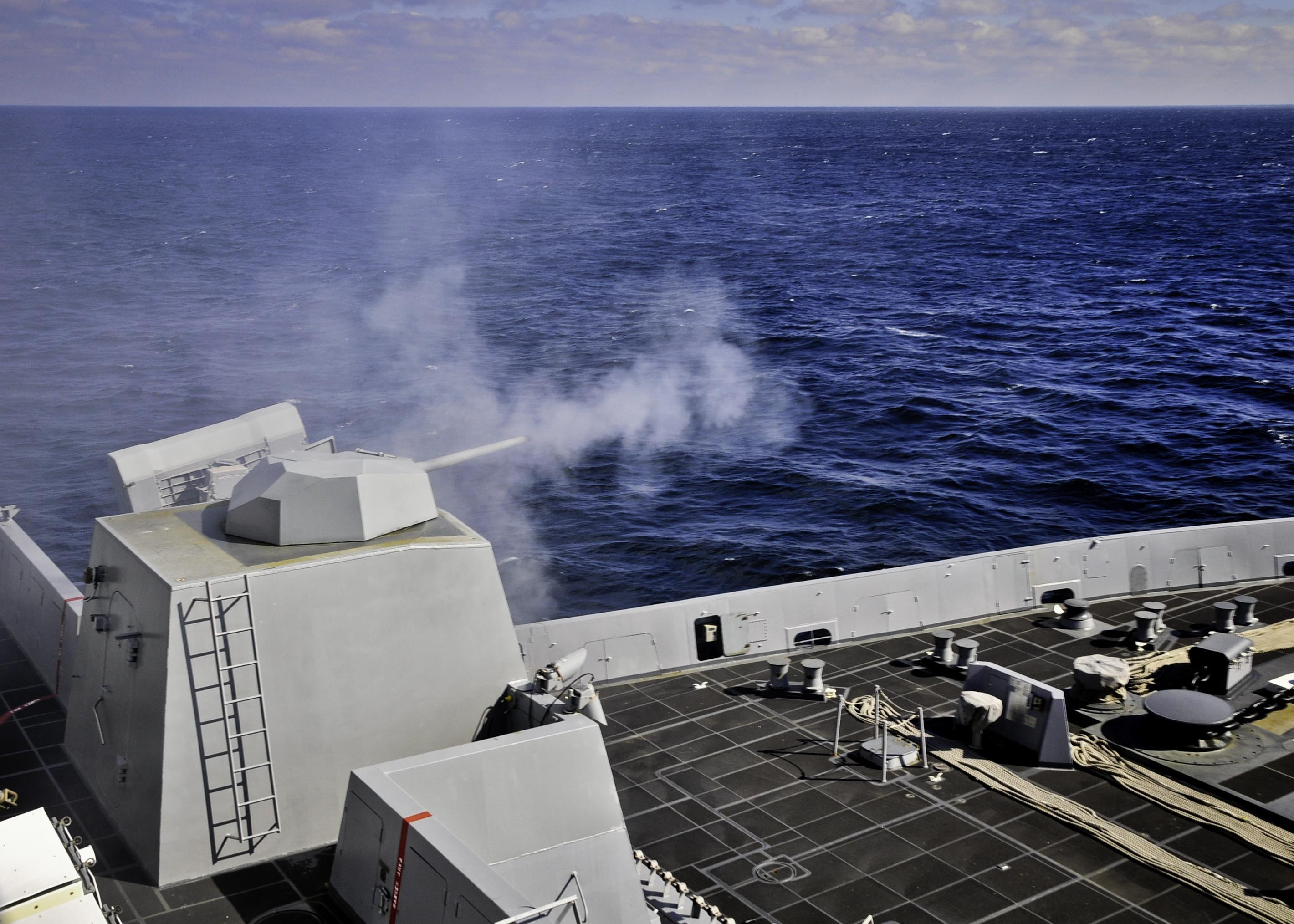 The amphibious transport dock ship USS New York (LPD 21) fires its MK46 30mm gun during a live-fire exercise. (U.S. Navy photo by Mass Communication Specialist 2nd Class Cyrus Roson/Released)